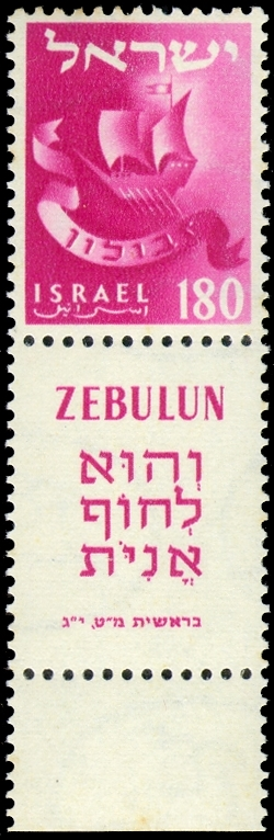 Tribes stamp - 180 mil - Zebulun. Second definitive series. Inscription on tab: "Zebulun.. shall be for an haven of ships..." Genesis IL, 13.